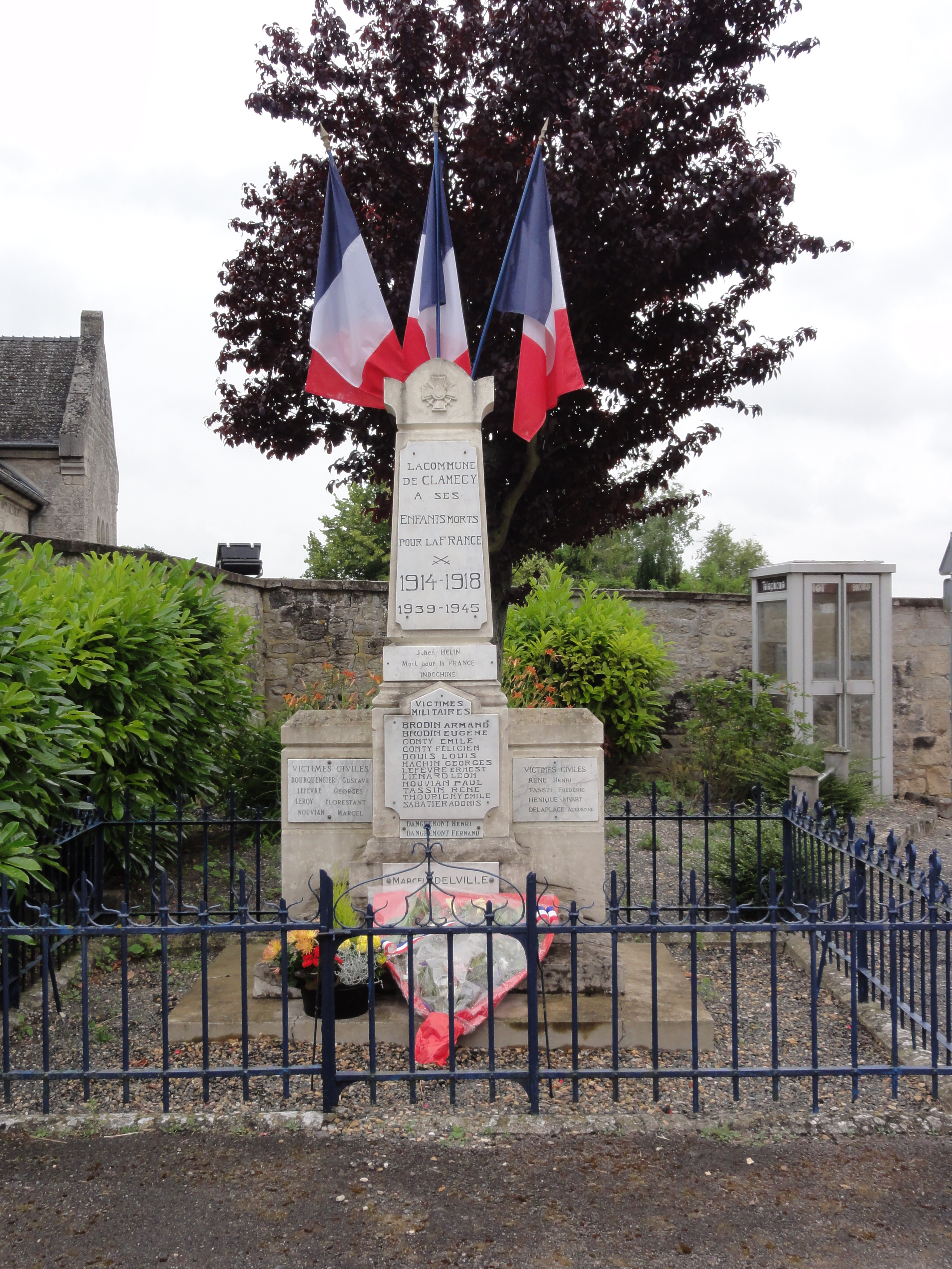 Clamecy (Aisne) monument aux morts